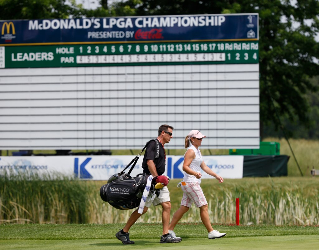 HAVRE DE GRACE, MD - JUNE 10: Kristy McPherson (USA) during practice round before 2009 LPGA Championship held at Bulle Rock Golf Course, on June 10, 2009 in Havre de Grace, Maryland. (Photo by Keith Allison)